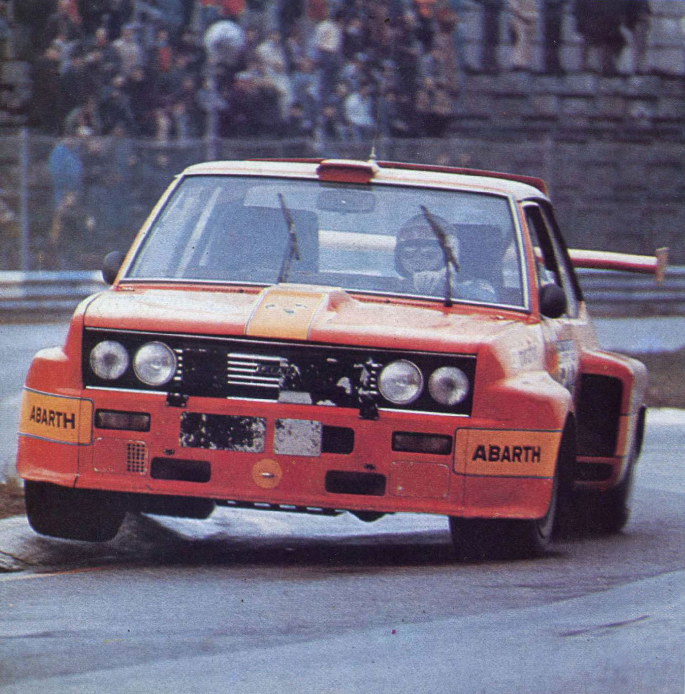 Imola, "Dino Ferrari" Autodrome, October 13, 1975. Italian driver Giorgio Pianta on Fiat Abarth 031 at the 1975 Automotive Tour of Italy, Imola round.